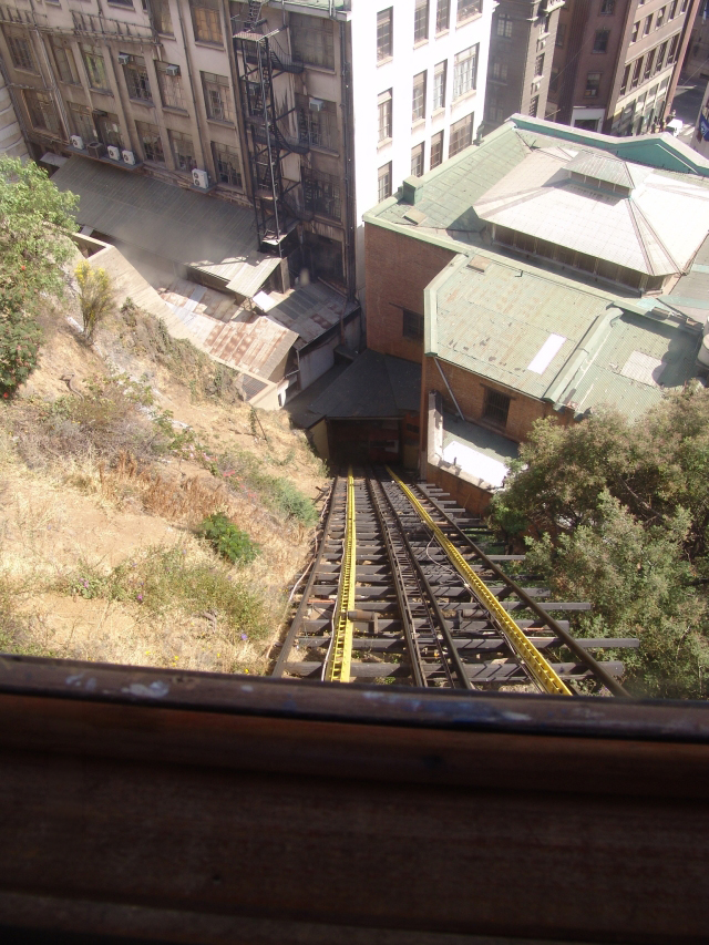 Funicular